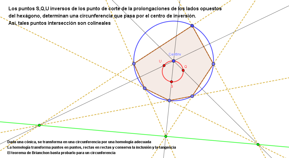 Graphic proof of then Pascal-Brianchon Theorem